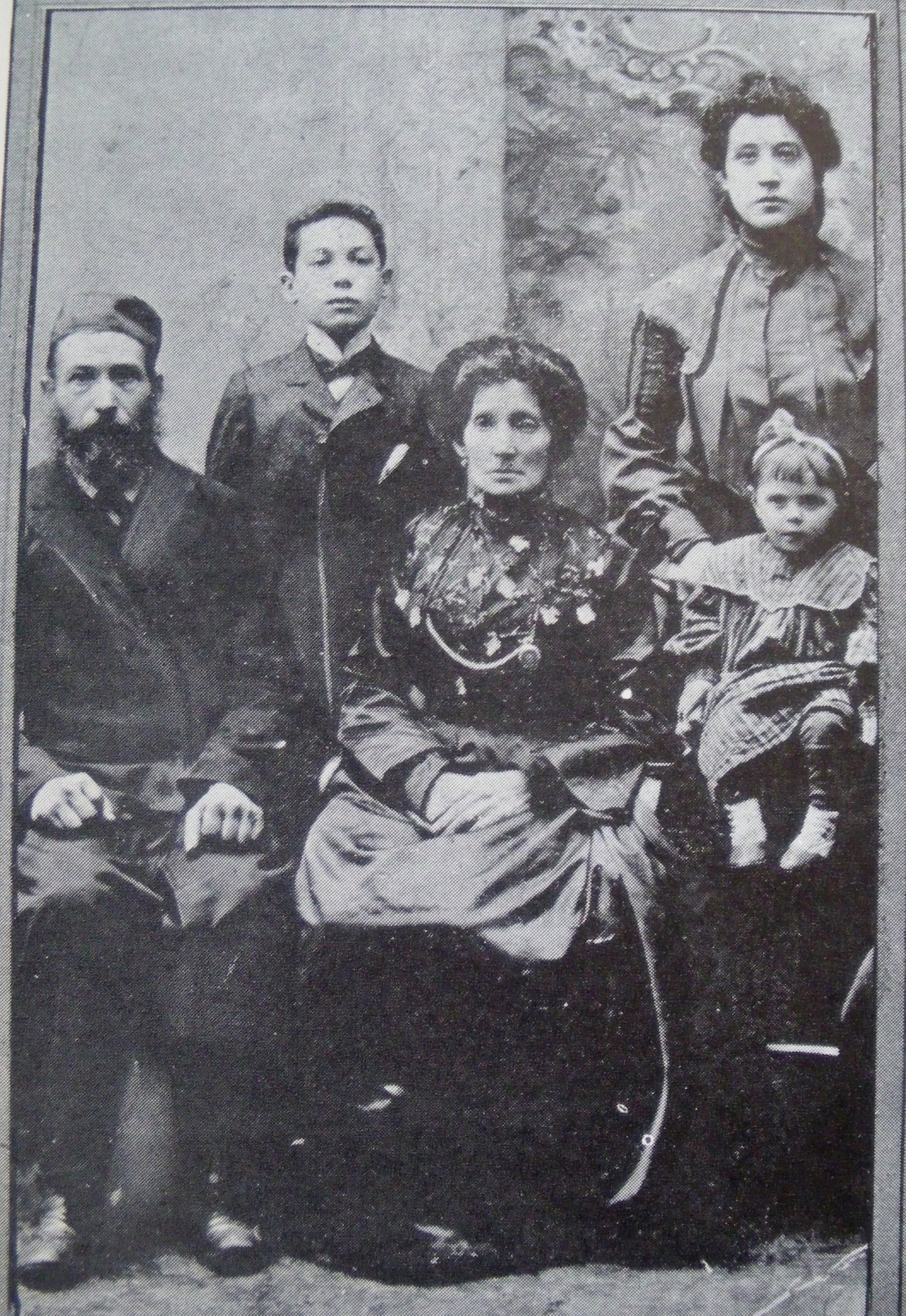 Yiddish theater actor Menashe Skulnick and his parents and sisters